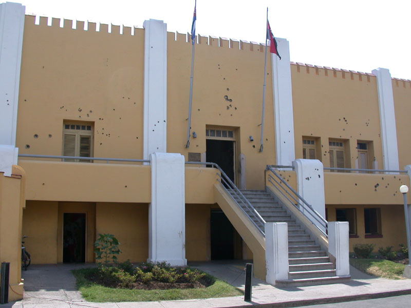 Historic Moncada Barracks — in Santiago de Cuba.